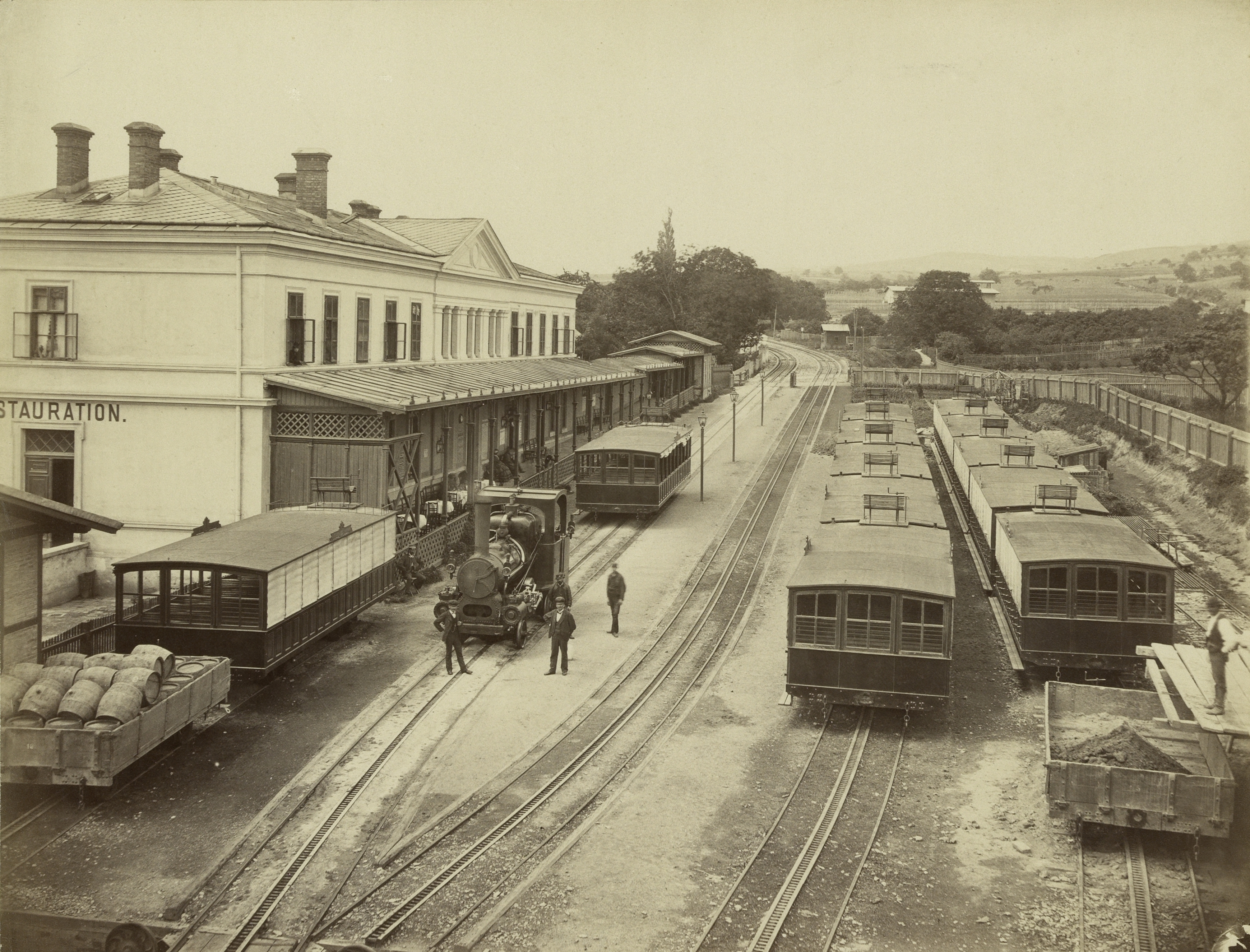 Kahlenbergbahn cog railway in Vienna, Nußdorf station